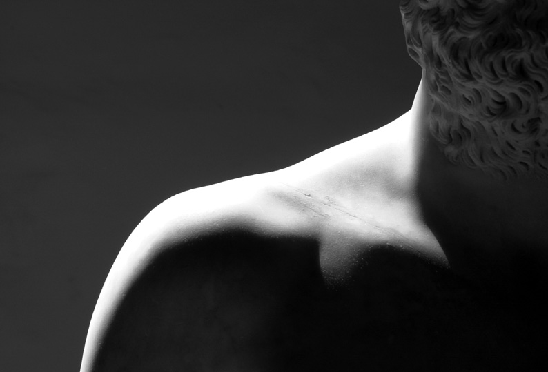 Shoulder